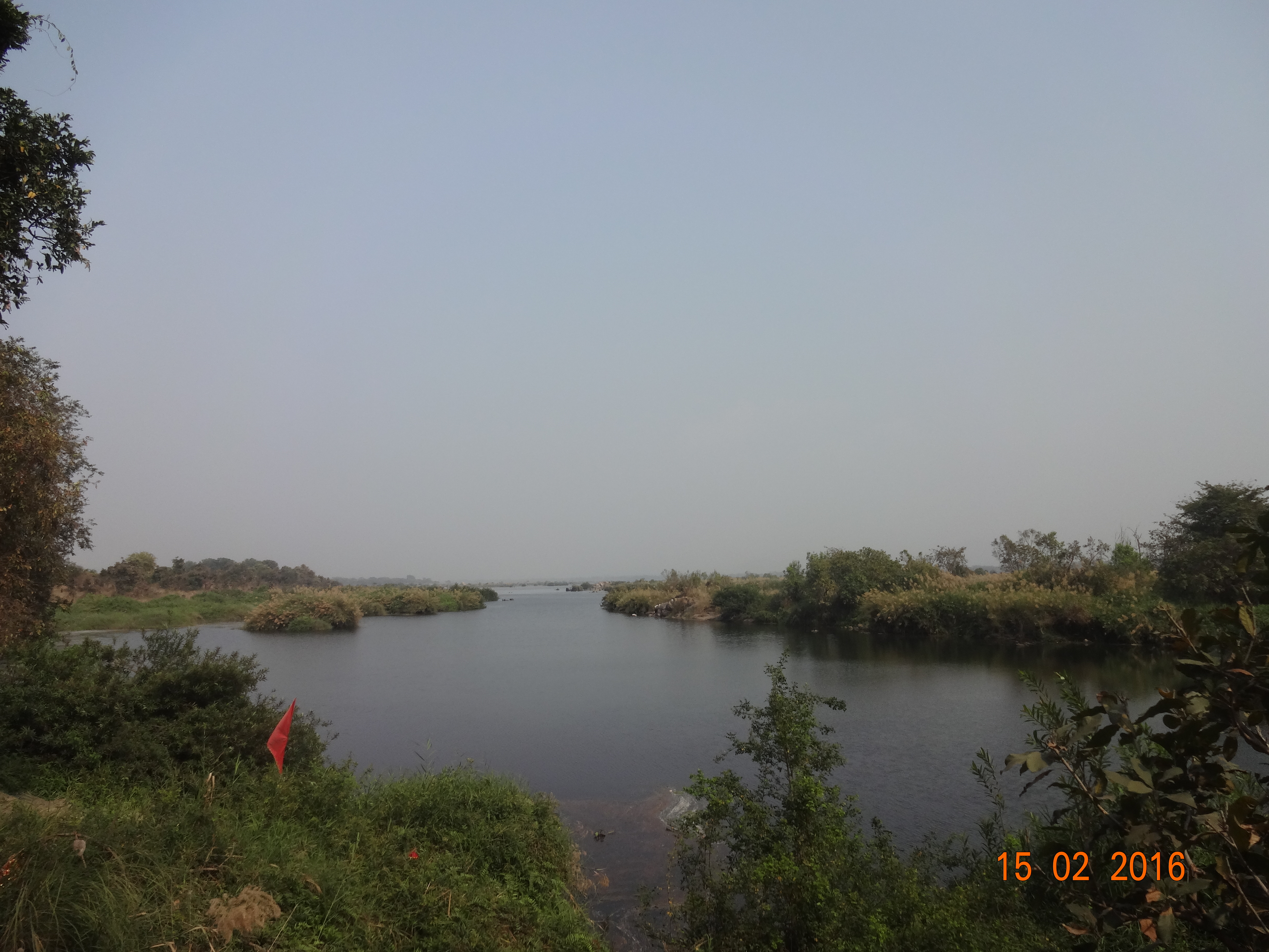 Maa Ghanteshwari temple is a temple in the vicinity of Sambalpur city in Odisha, India